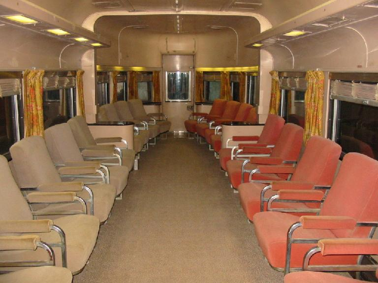 The interior of an observation car on display at the National Railroad Museum in Green Bay Photo by Sean Lamb (User:Slambo), April, 2004.